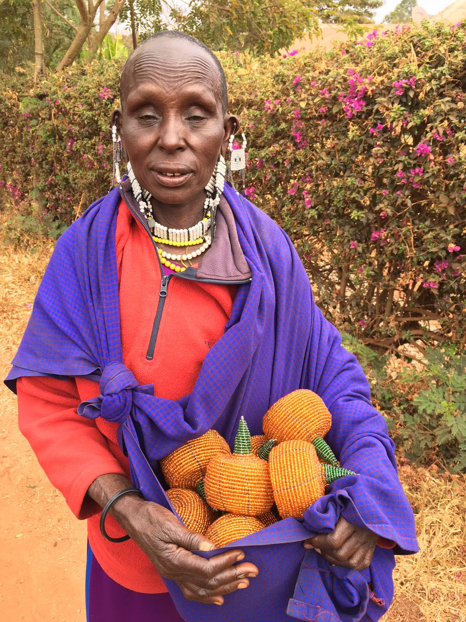 Nearly 200 Maasai women participate in Kiretono's Women's Enterprise Program, generating an income from producing home, lodge, and wedding decor and gifts using traditional artisan techniques. Here, Ngoije collects the pumpkins she's created. This is an image of "African people at work" from Tanzania